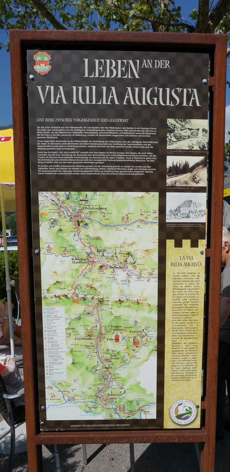 Informationboard Via Julia Augusta, ancient Roman road from Austria to Italy, European Union